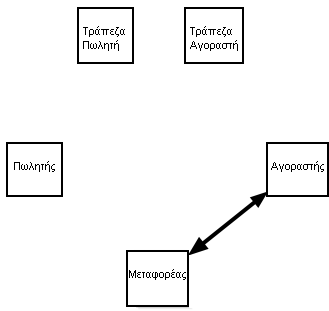 Buyer provides bill of lading to carrier and takes delivery of goods.